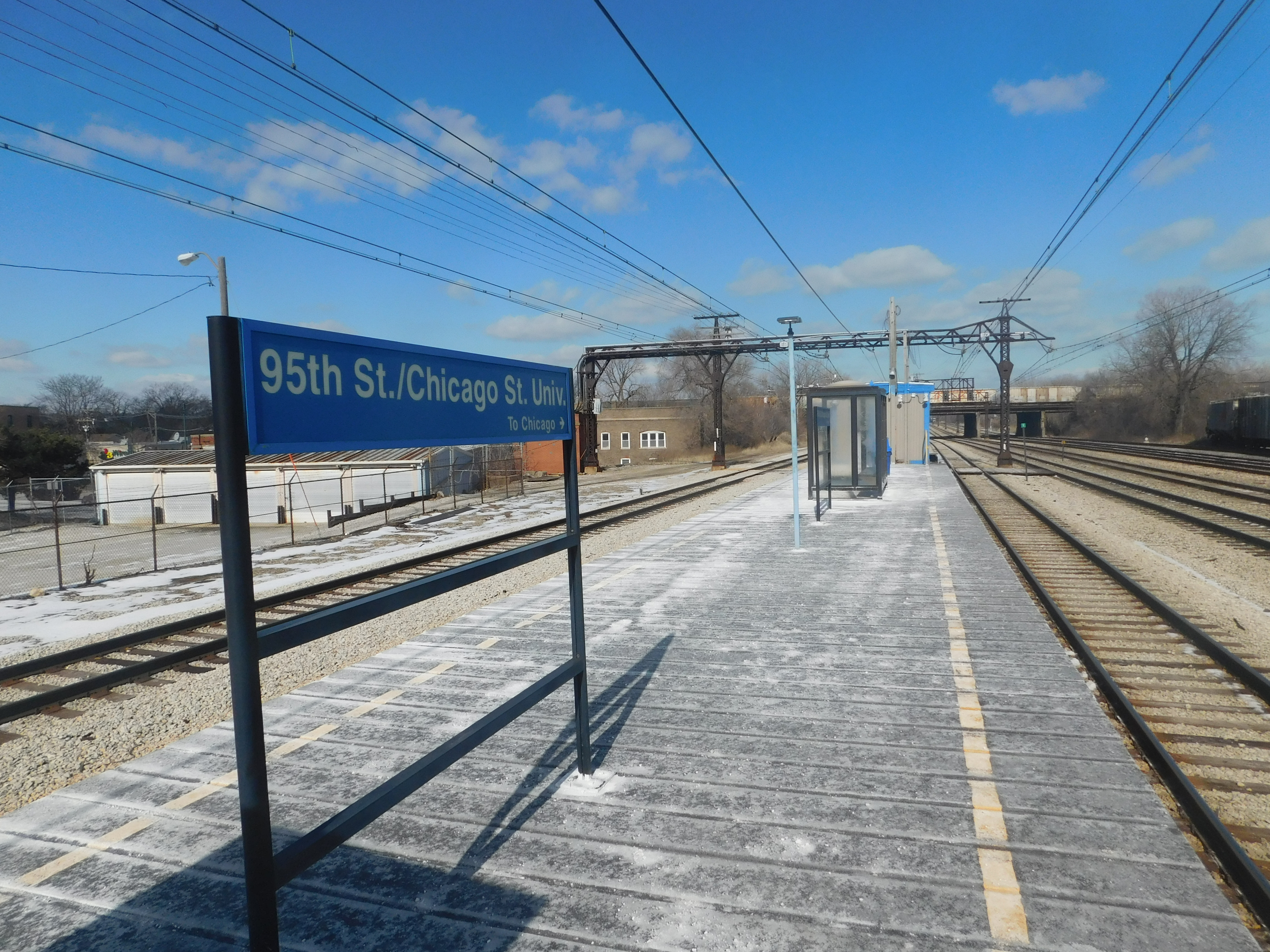 95th Street/Chicago State University station in the south side of Chicago, Illinois